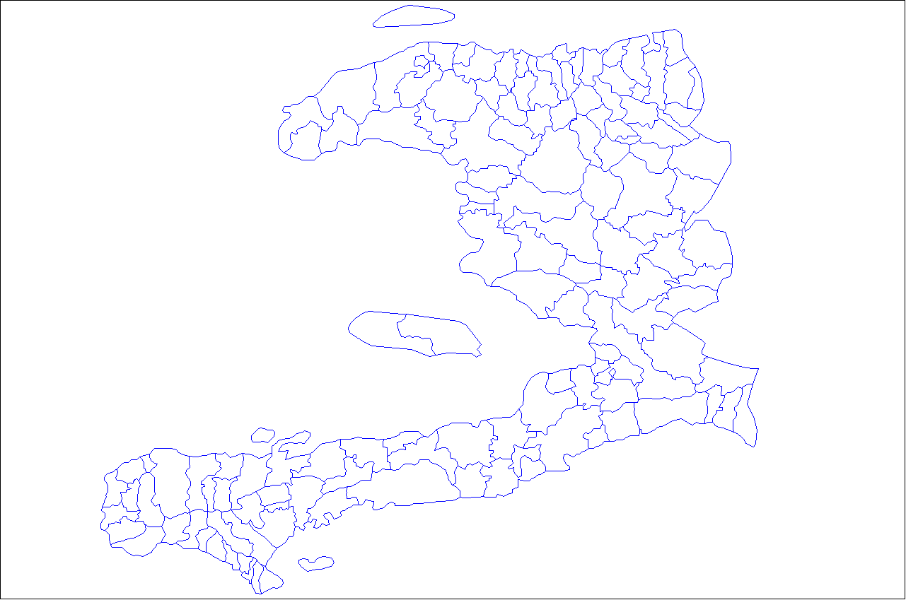 Map of the communes of Haiti. Created by Rarelibra 21:03, 27 April 2007 (UTC) for public domain use, using MapInfo Professional v8.5 and various mapping resources.